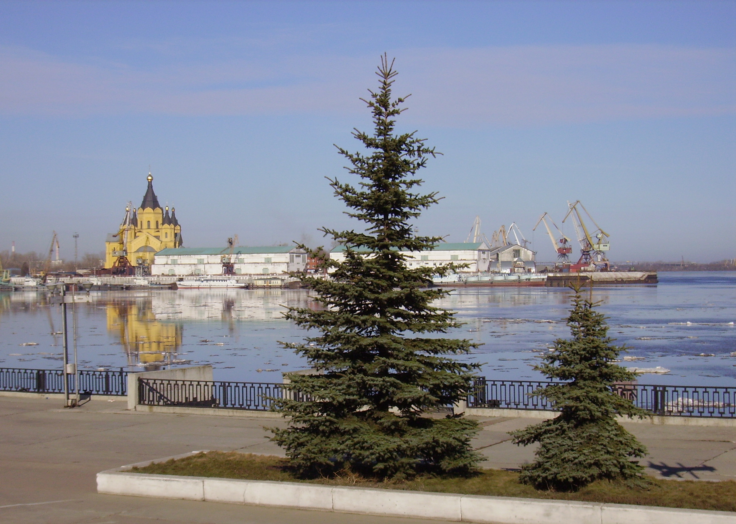 Confluence of Volga and Oka Rivers in Nizhny Novgorod